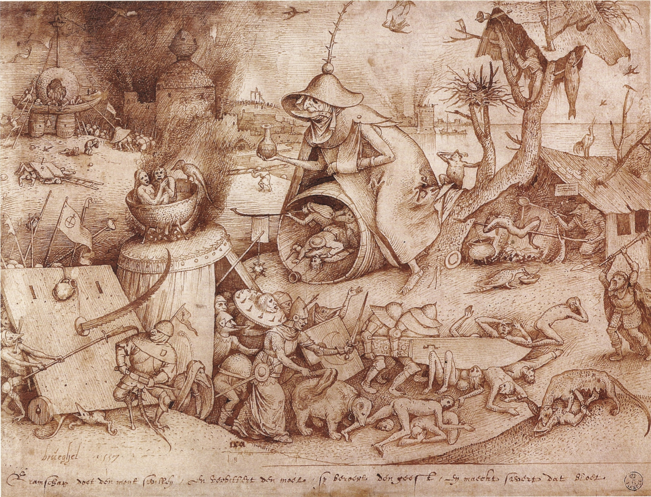 Die sieben Laster, Ira (Zorn). Zeichnung Pieter Bruegels des Älteren. Maße: 32,2 x 43 cm. Gabinetto dei Disegni e delle Stampe, Galleria degli Uffizi, Florenz